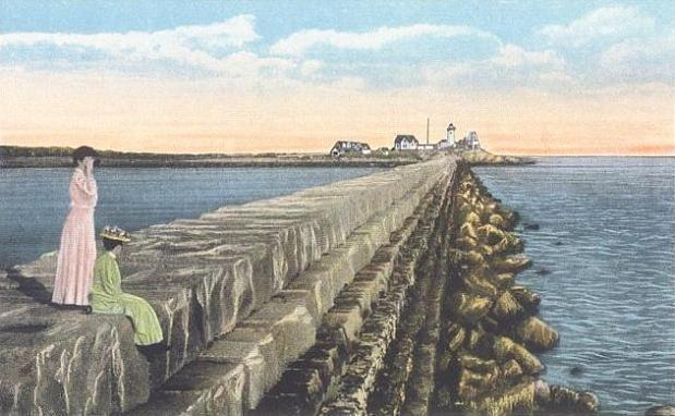 Breakwater & Eastern Point Lighthouse, Gloucester, MA; from a c. 1915 postcard.